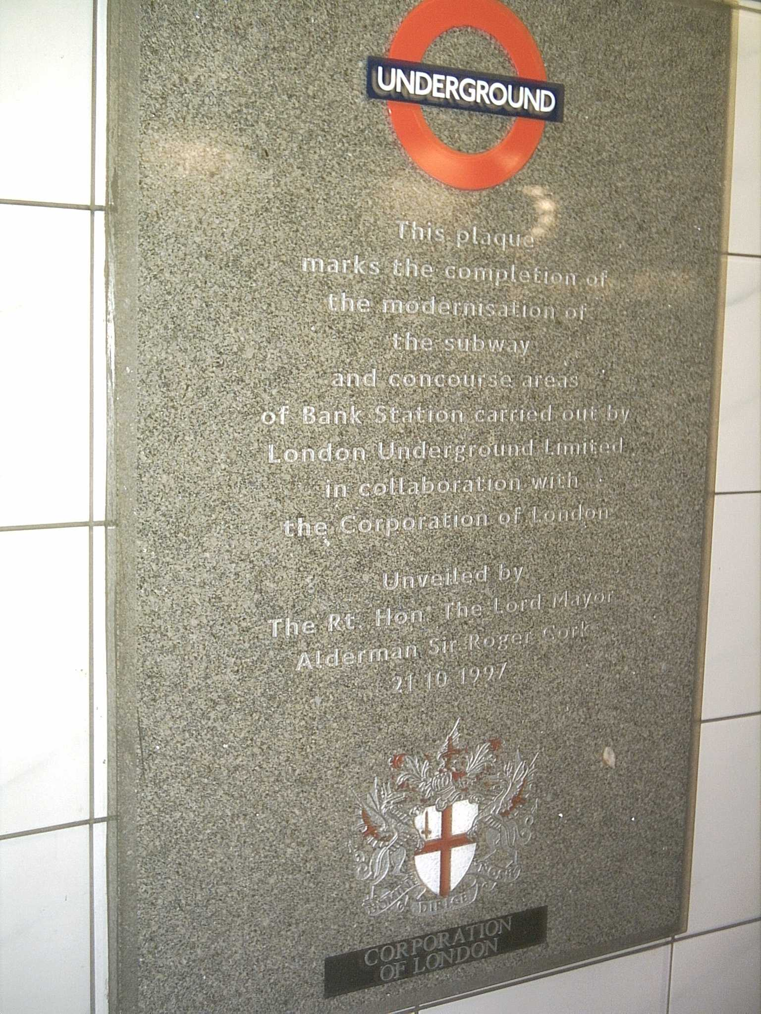 Plaque at Bank Tube Station, London